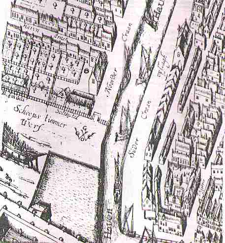 Map of the wharf of the West-Indische Compagnie; in the city of Groningen (NL) in 1650.